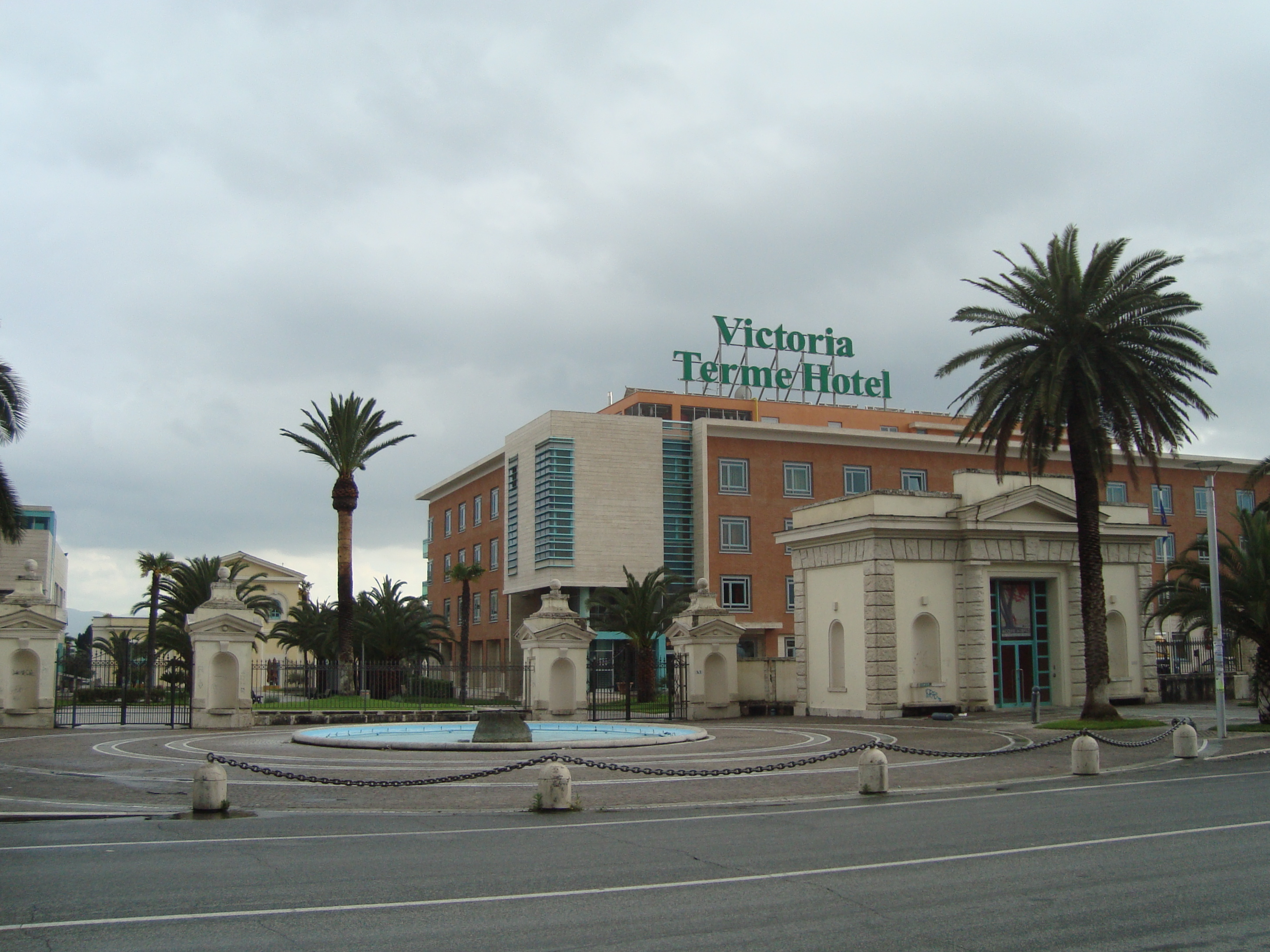 The thermal complex in Tivoli Terme, named Terme di Roma.